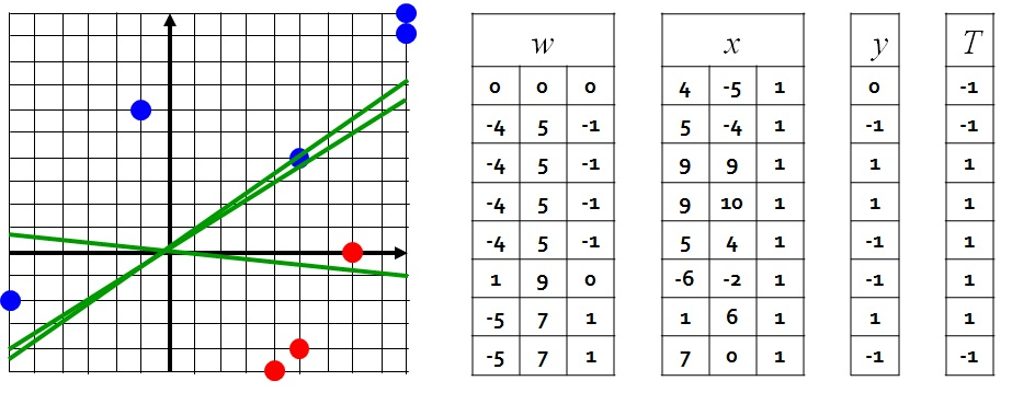 Description of the preceptron's work